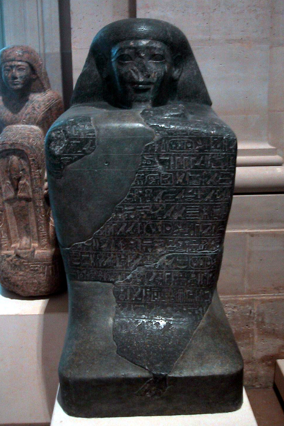 Hapouseneb, vizir, 1st priest of Amon and chief of the constructions ca.1460 BCE (18th Dynasty).